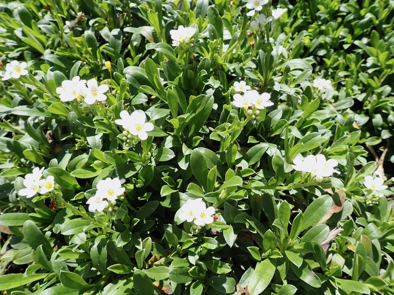 Myosotis eximia (mouse-eared eximia), Otari-Wilton's Bush, Wellington, New Zealand